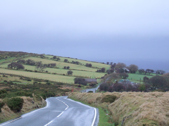 Tafarn y bwlch on the edge of the moorland The name of this cluster of houses means Tavern [at] the pass. The hostelry no longer exists but was once a crucial stop on this long, bleak upland route between Cardigan and Haverfordwest. The road, now the B4329, was used in mediaeval times and subsequently turnpiked. This point still marks the boundary between fields and unenclosed moorland, an area where travellers would have been exposed to wild weather and wilder brigands before the invention of cars.